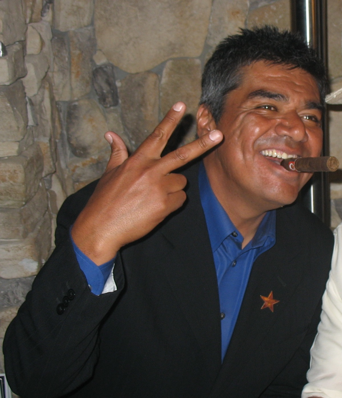 George Lopez